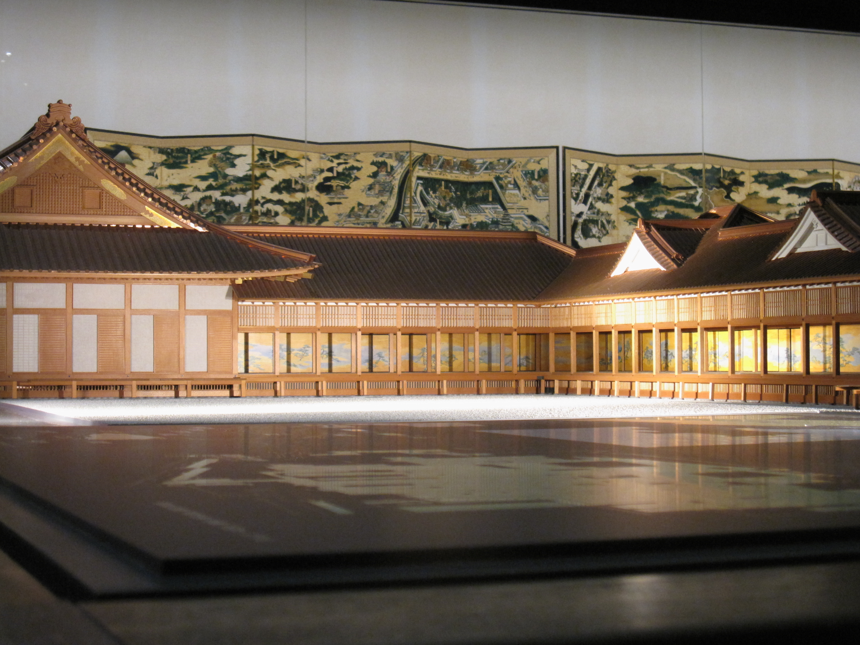 1:30 architectural model of the ōhiroma, matsu-no-rōka and shiroshoin rooms of Edo Castle, at the Edo-Tokyo Museum.